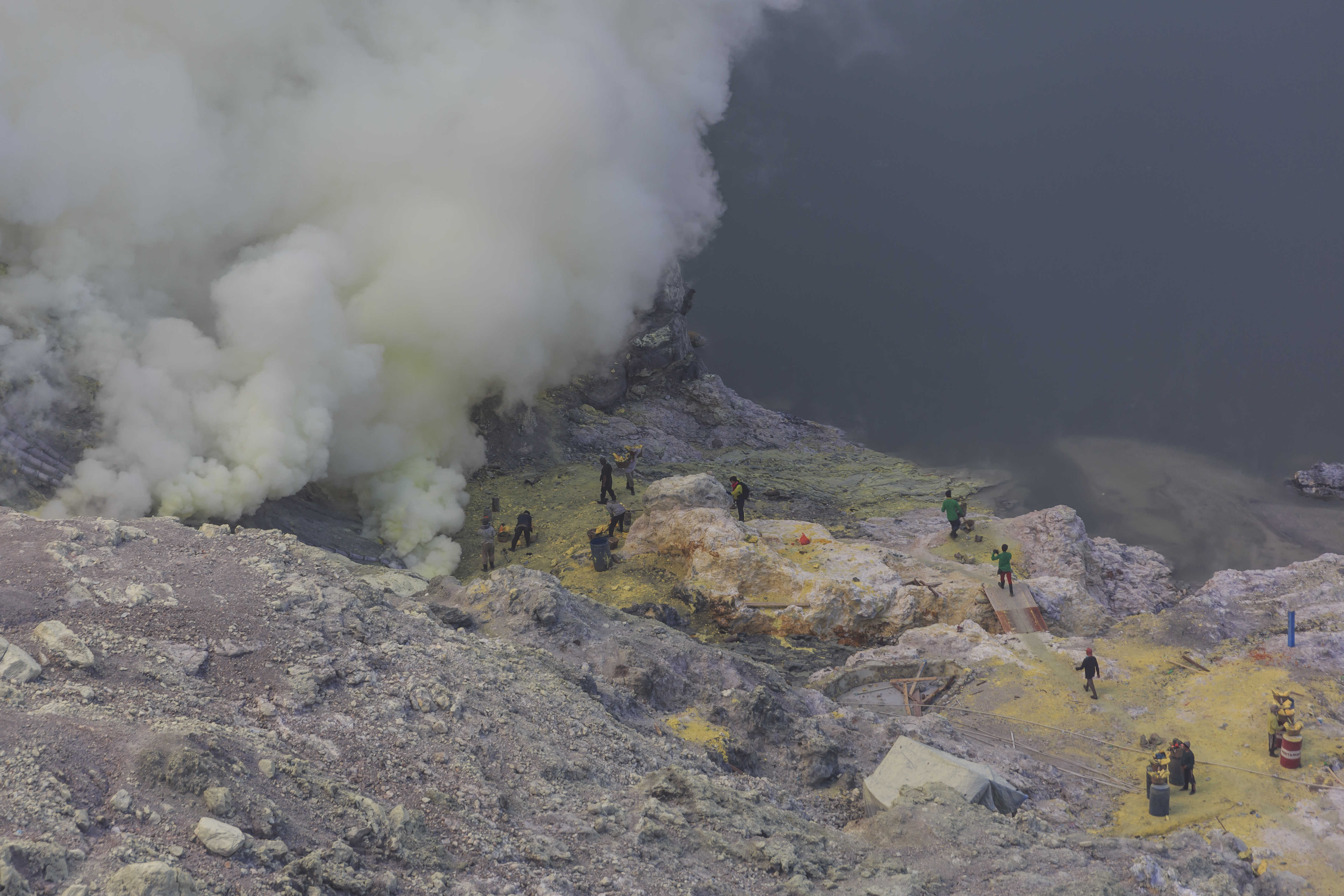 Ijen Volcano, Banyuwangi Regency, East Java, Indonesia: Sulfurous smokes from the volcano are the source of the sulfur mine. Sulfur minersa re collecting the natural sulfur.